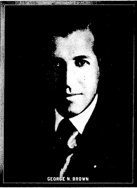 George Brown, 1922